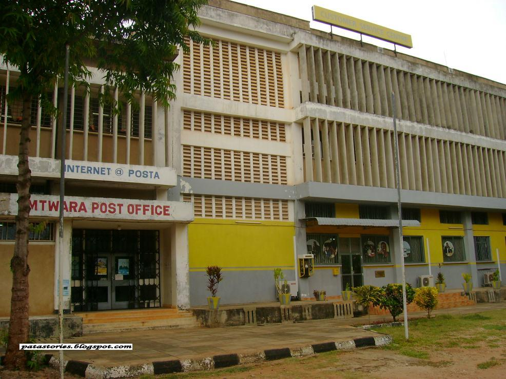 The Post in Mtwara town, Tanzania